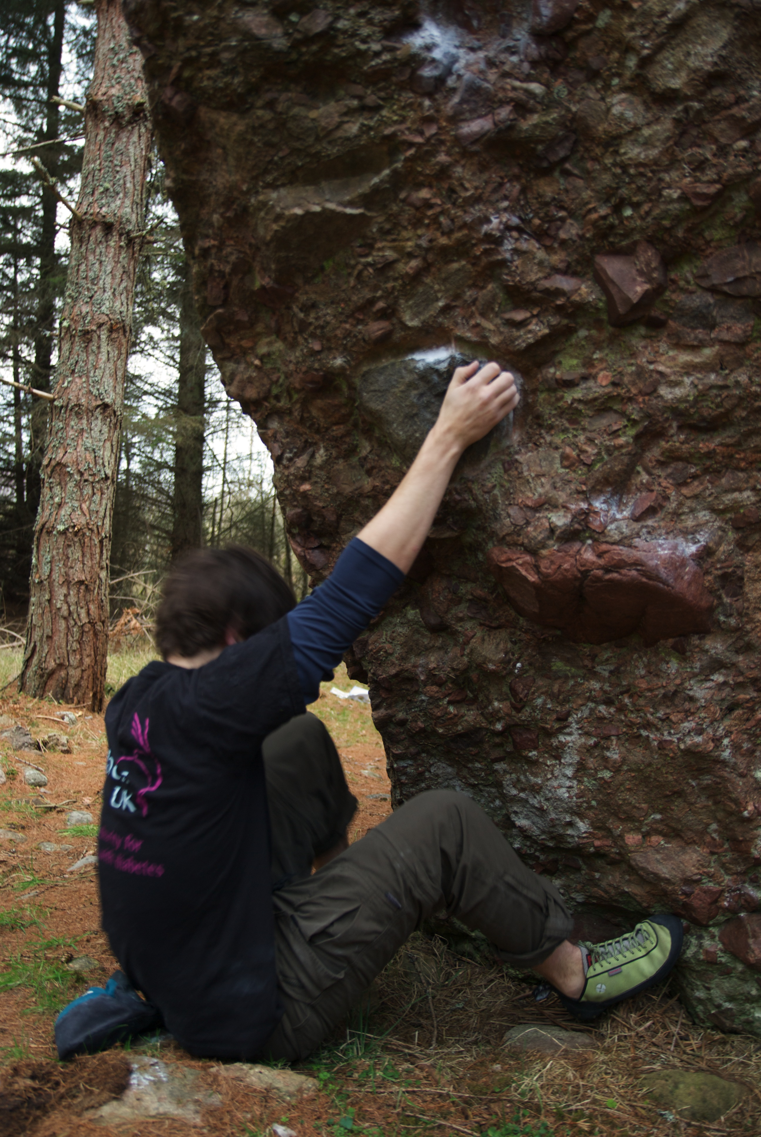 Andy trying a sit-start on the West Arete